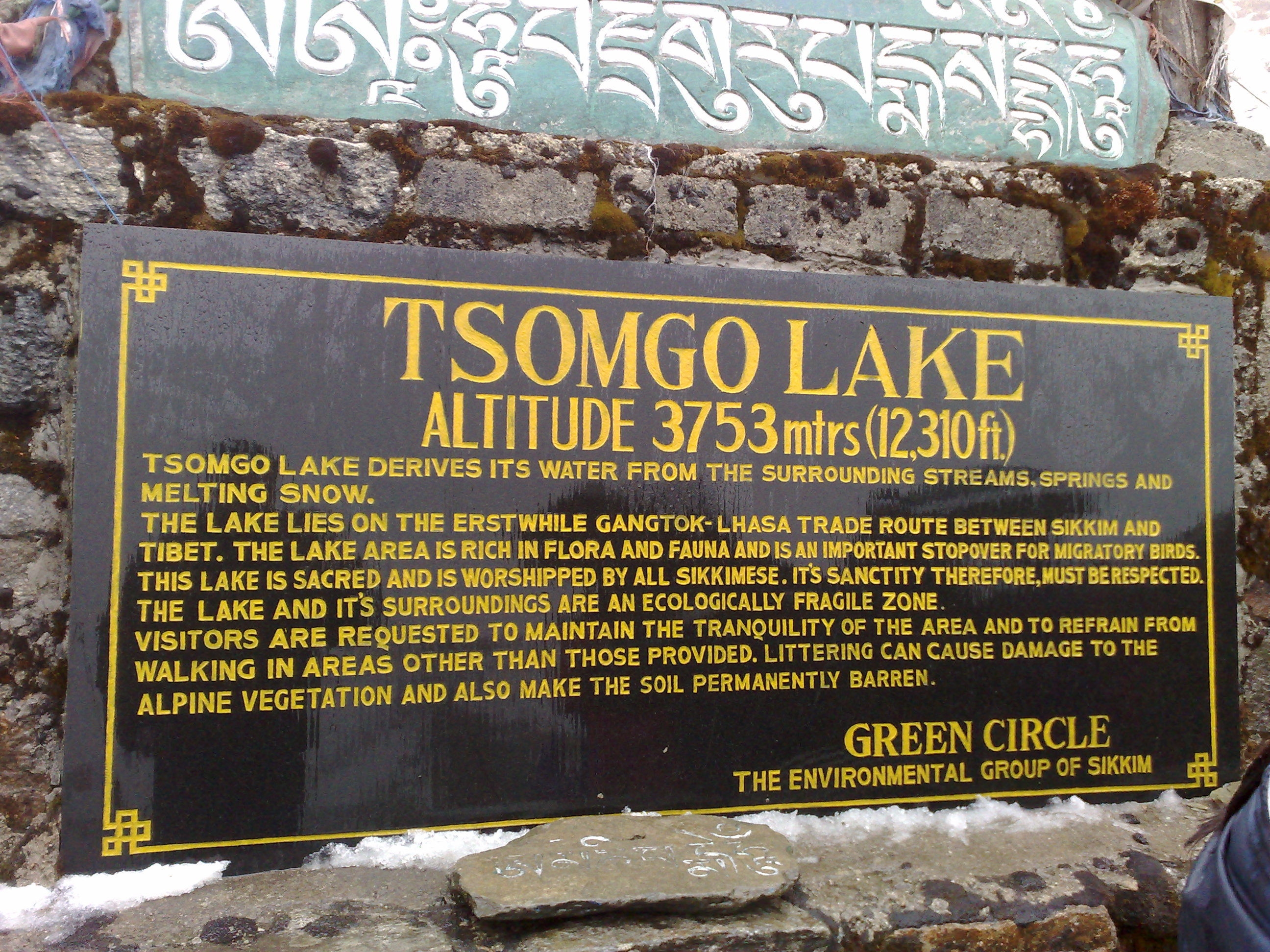 Tsomgo Lake - Elevation